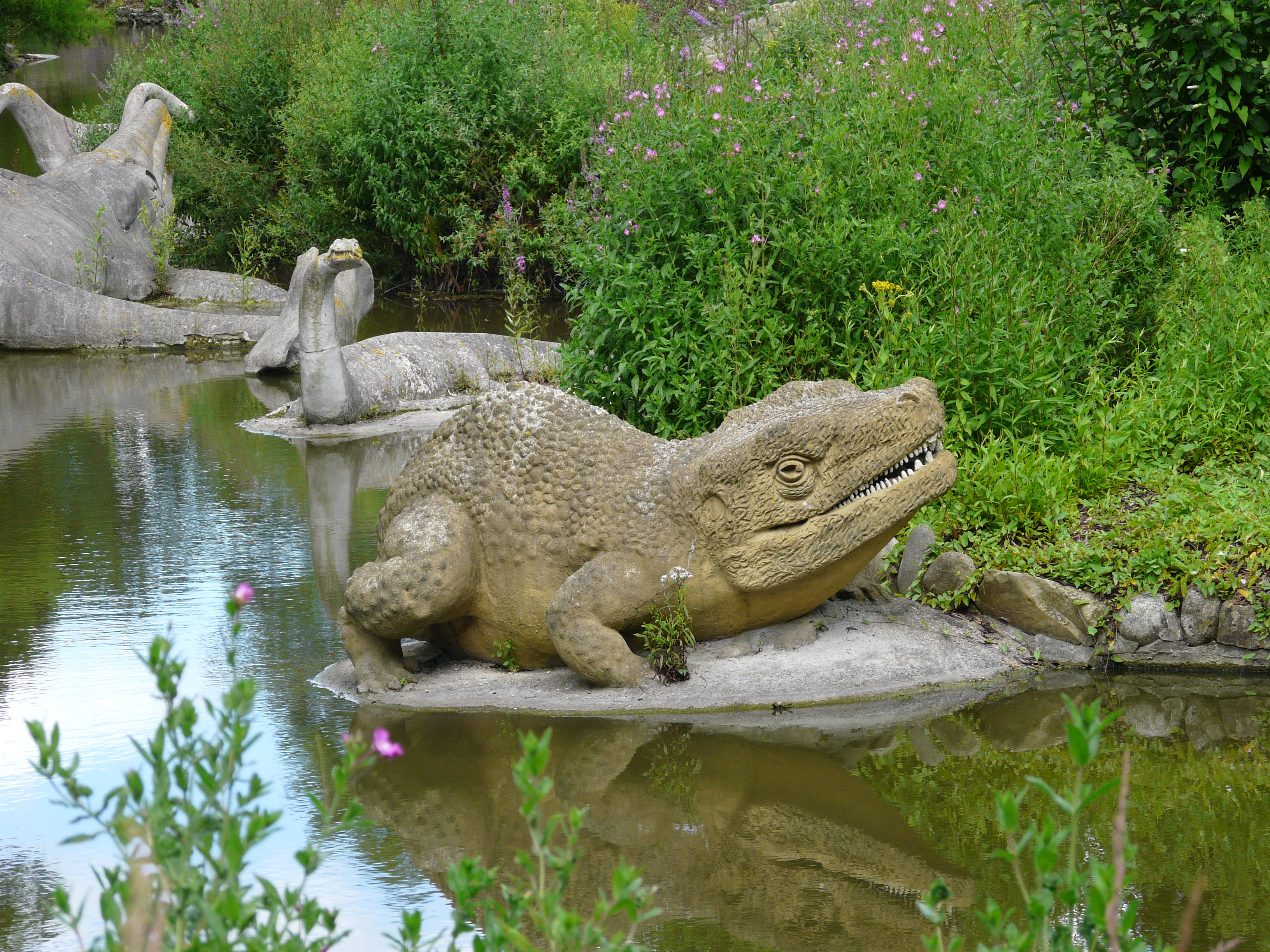 Crystal Palace Dinosaur Park, Labyrinthodon